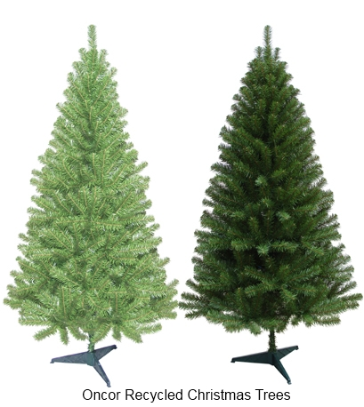 Typical Oncor 6 feet Recycled Christmas Trees.